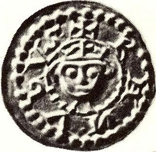 King Canute II of Sweden on one of his coins